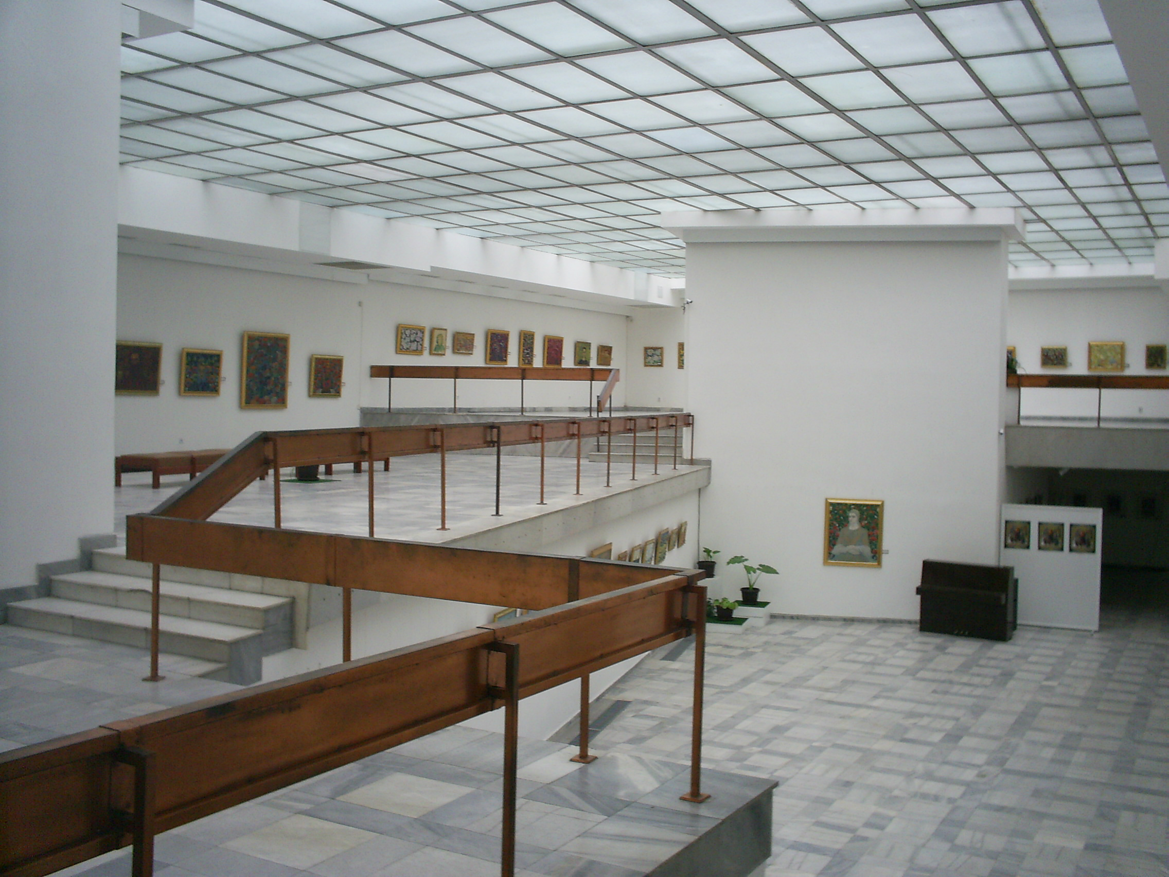 Art gallery "Vladimir Dimitrov- The Master", Kyustendil, Bulgaria